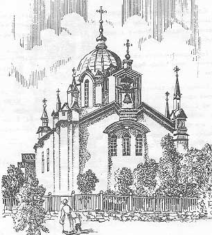 Mariupol old church